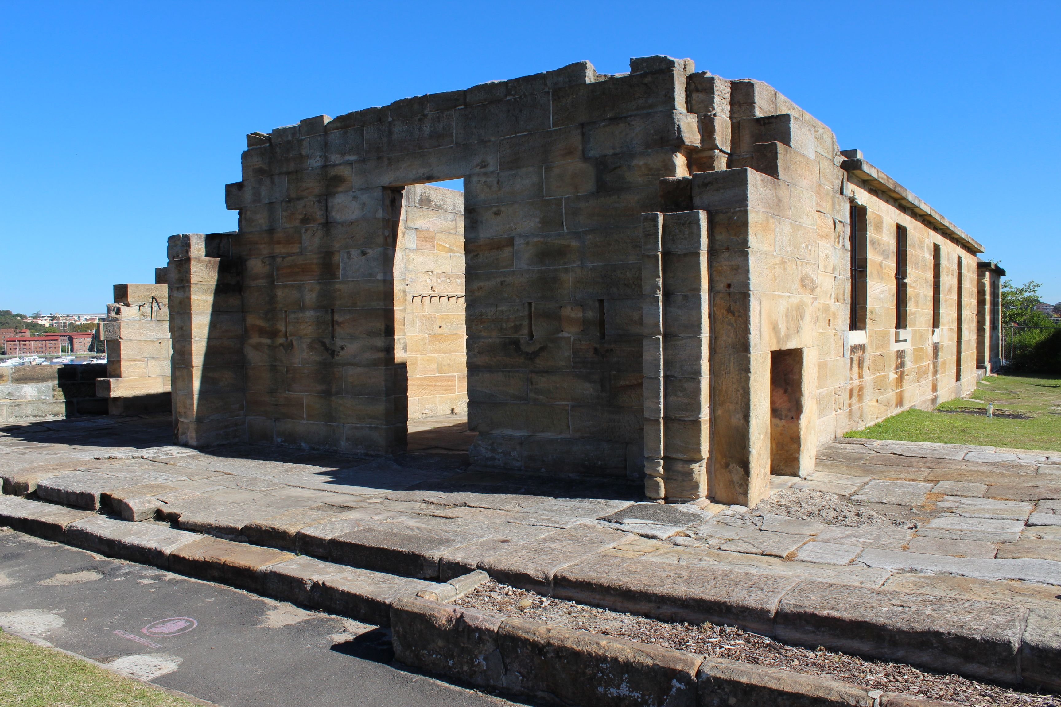 Barracks